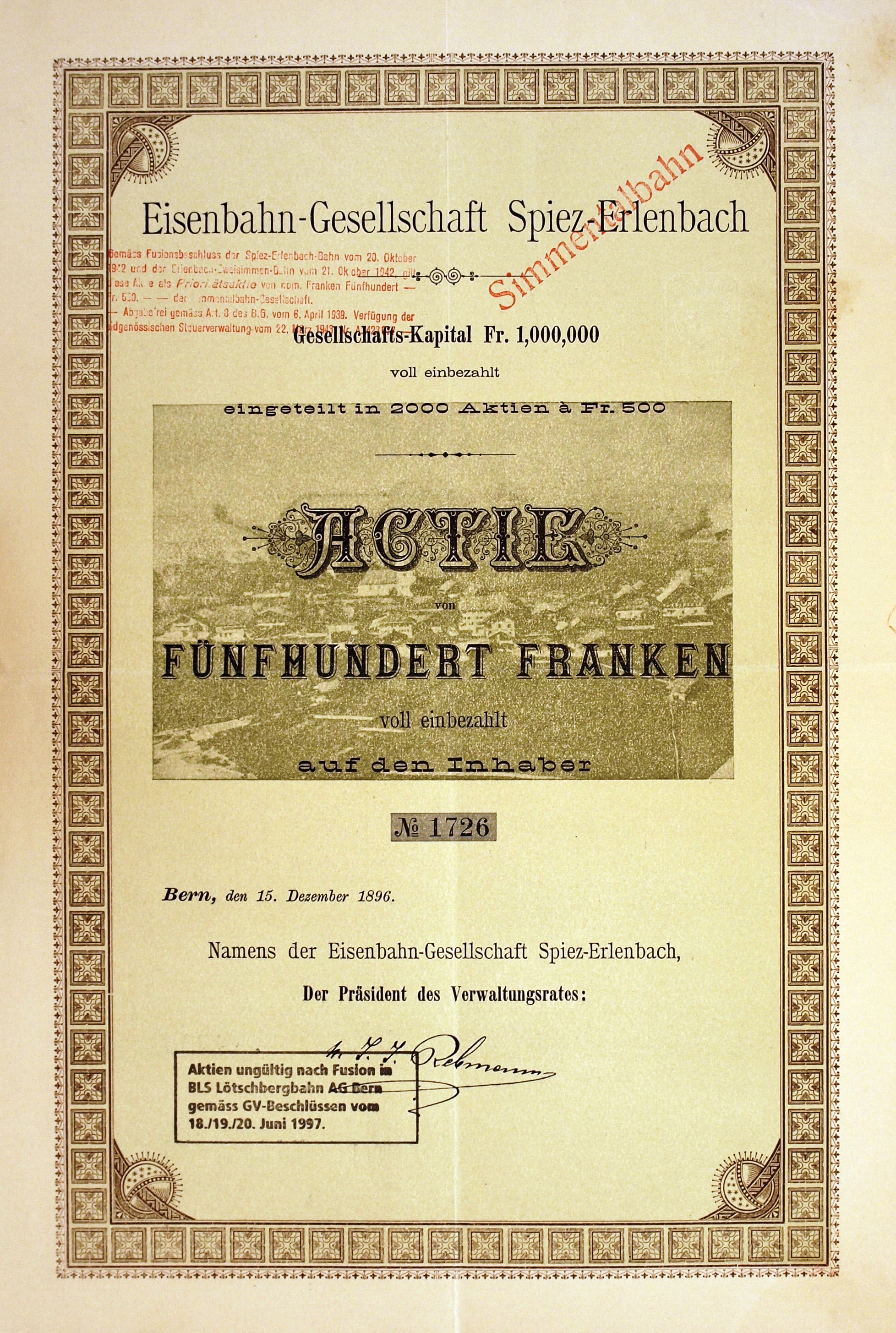 Share of the Eisenbahn-Gesellschaft Spiez-Erlenbach, issued 15. December 1896